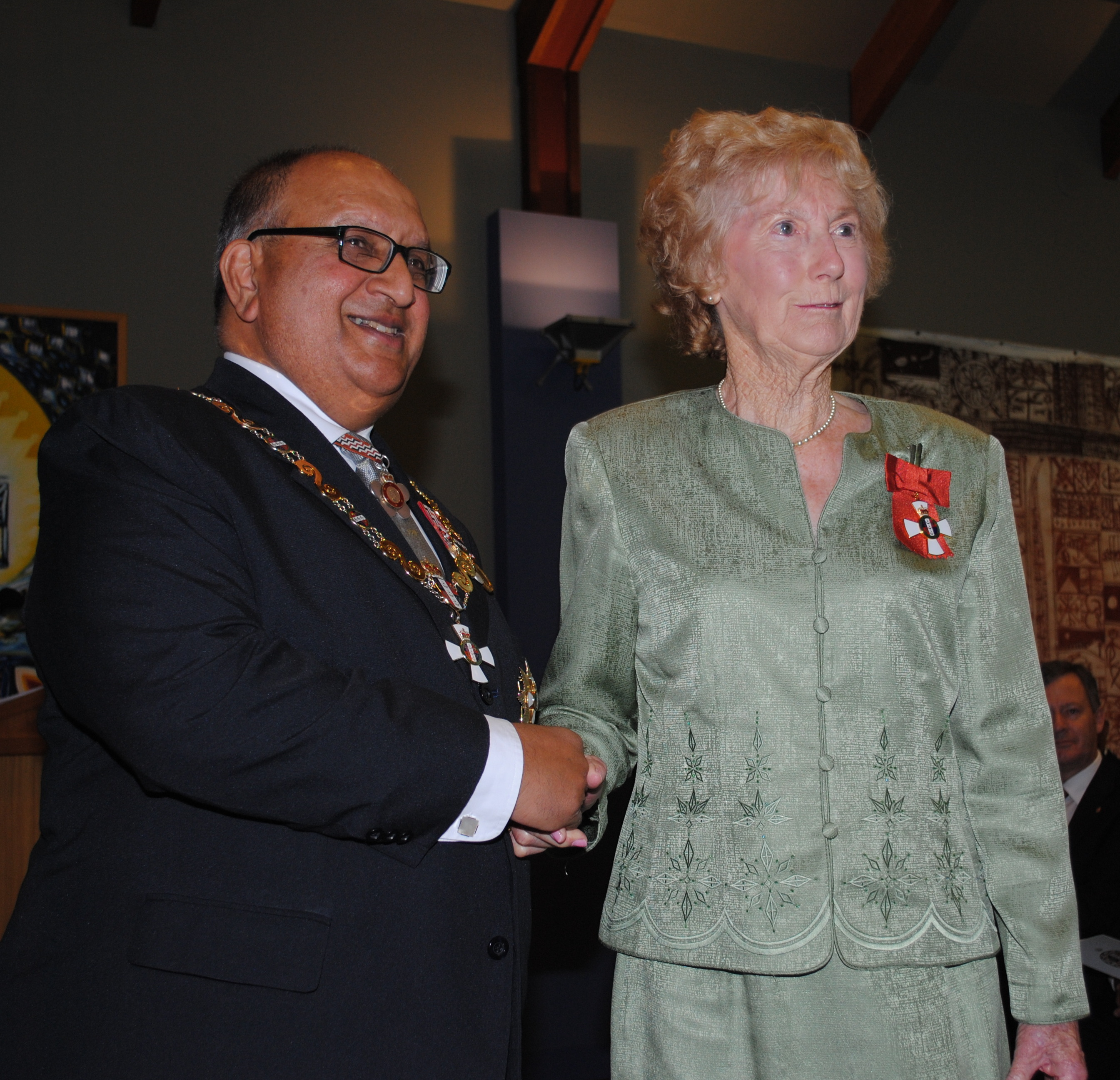 Yvette Corlett, after her investiture as CNZM, for services to athletics, by the governor-general, Sir Anand Satyanand, on 7 April 2011